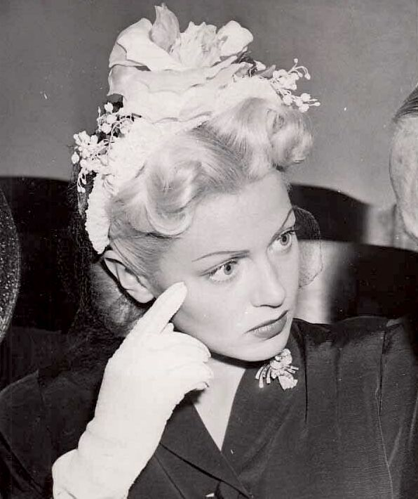 Lana Turner in a press photo dated 1 September 1944